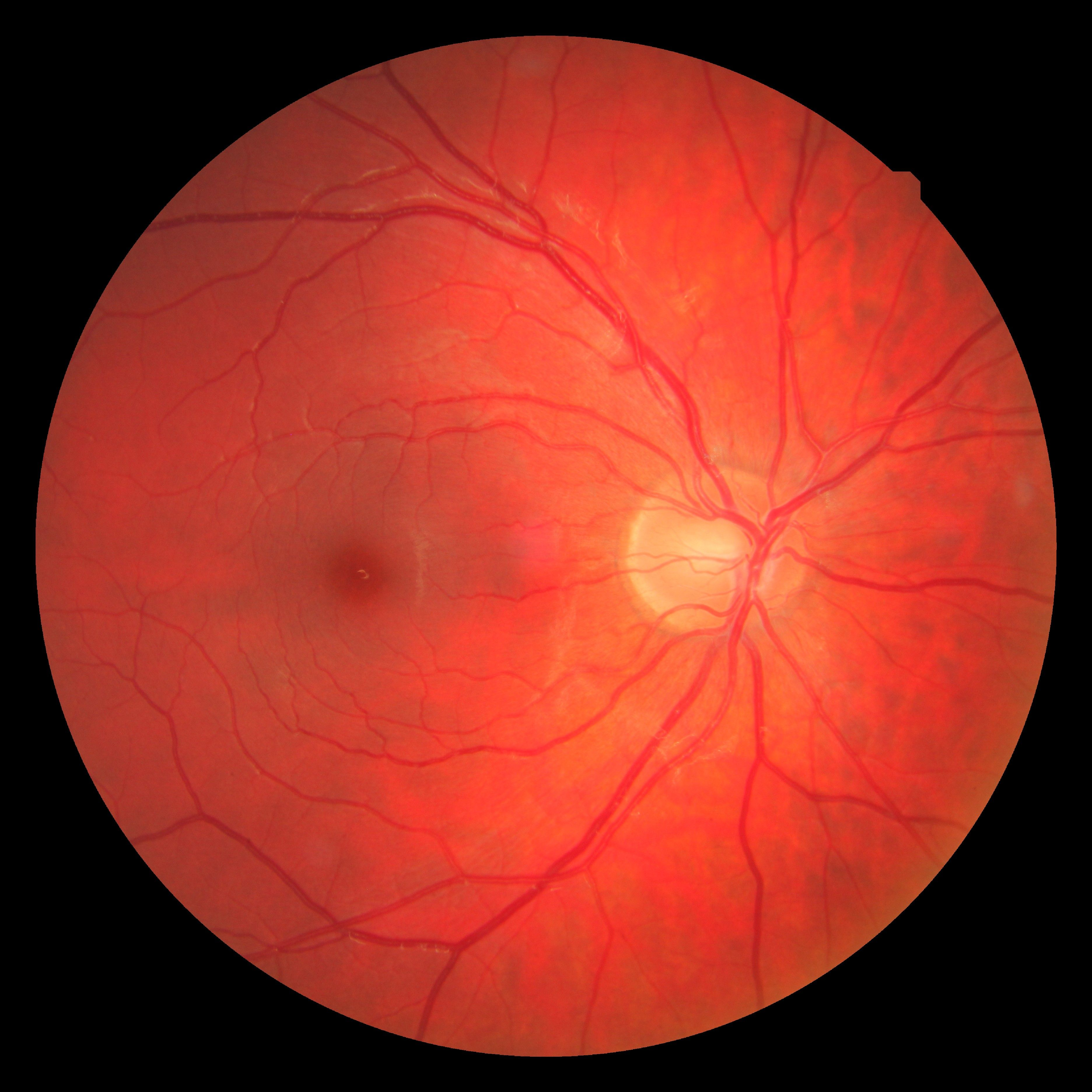 Fundus photograph of the right eye.